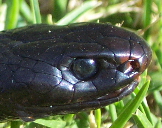 Pseudechis porphyriacus (roadkill), found between Marlo and Cape Conran, Victoria, Australia; tooth exposed